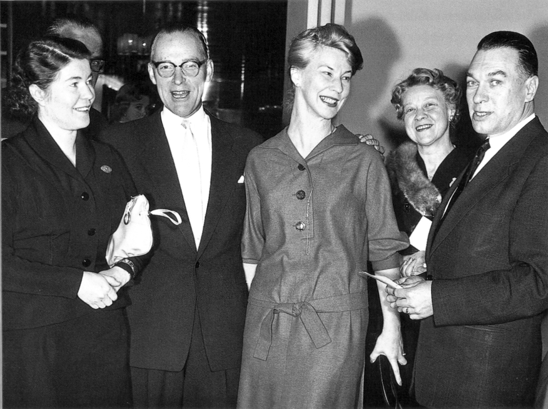 Photograph of Finnish writers with their publisher: from left Aale Tynni, Yrjö A. Jäntti, Eeva Joenpelto, Seere Salminen, Nenno Suolahti.